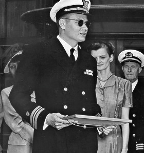 USCG captain and future Guam governor Carlton Skinner